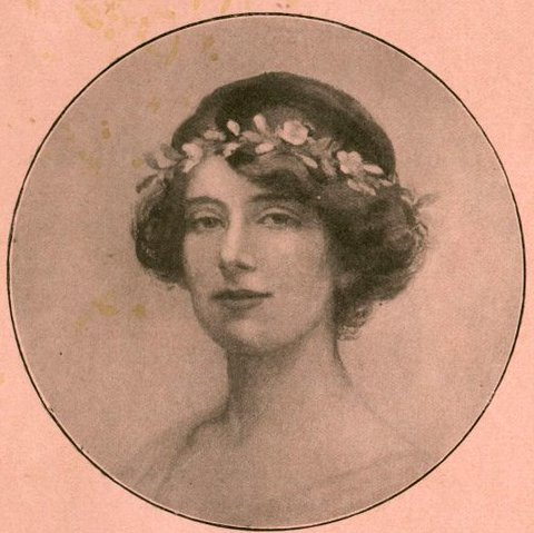 Una Duval Lovre and Honour and not Obey by Ethel Wright in 1912